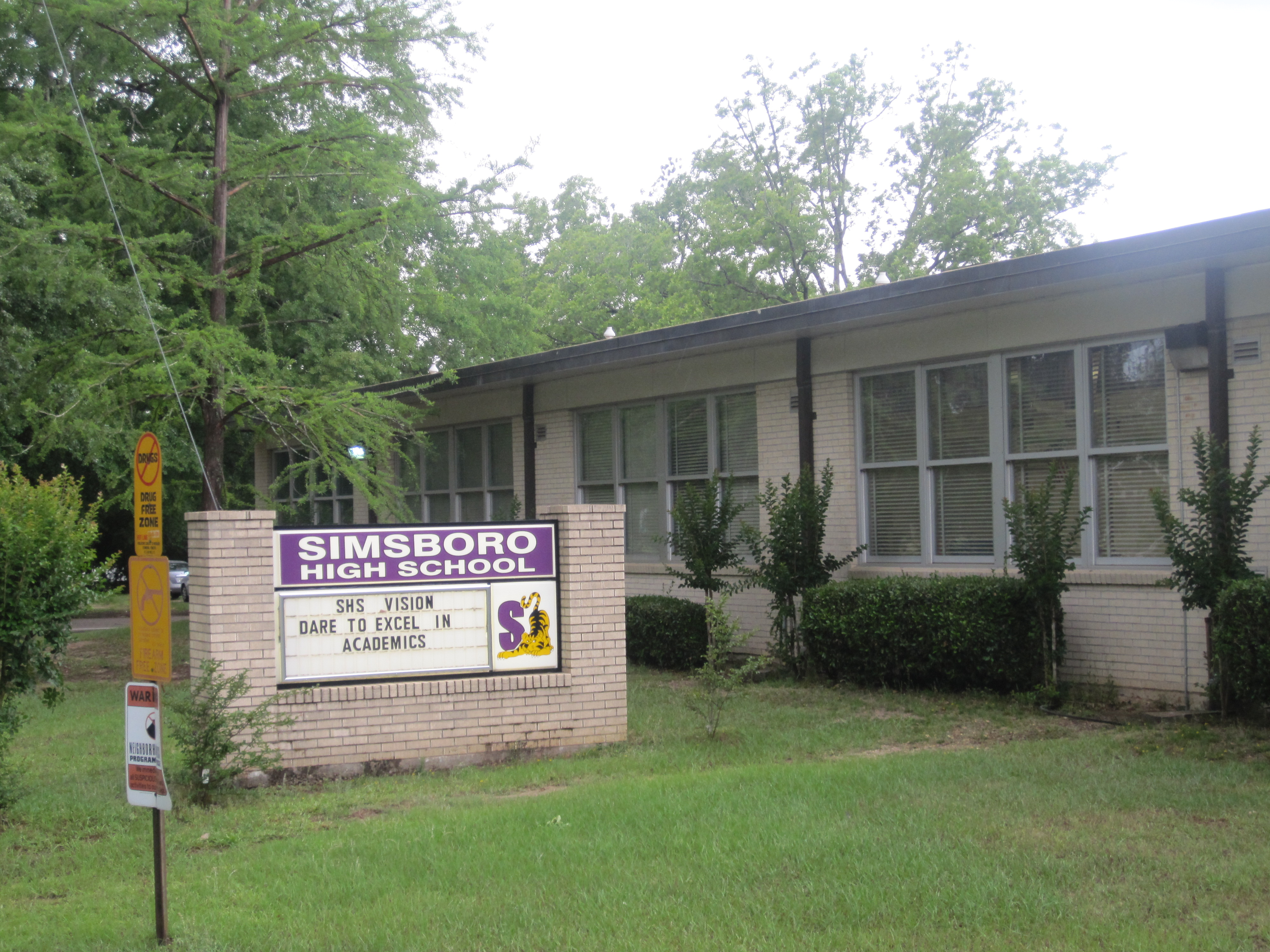 I took photo with Canon camera.